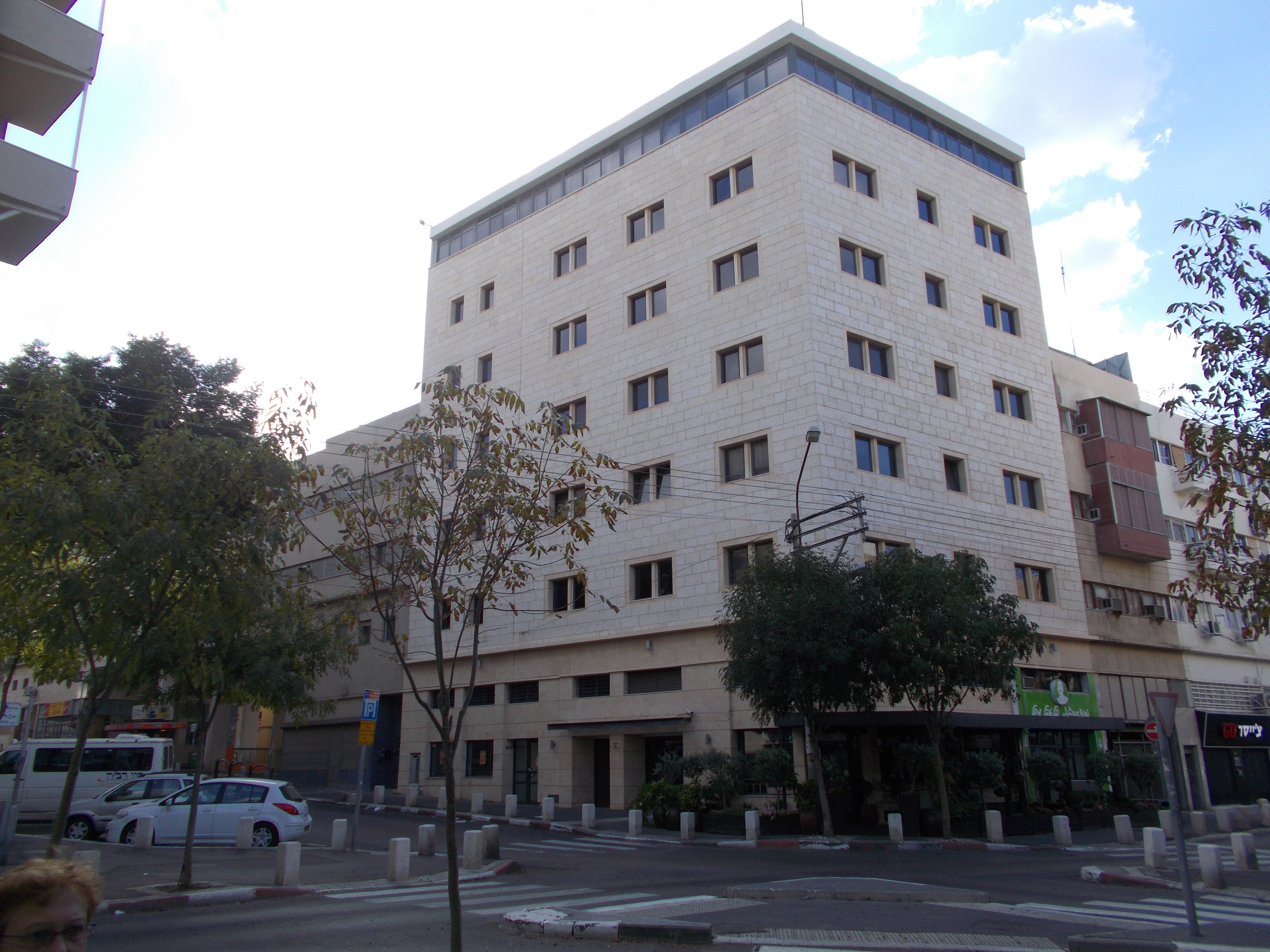 The entrance to the new commercial area in Haifa.